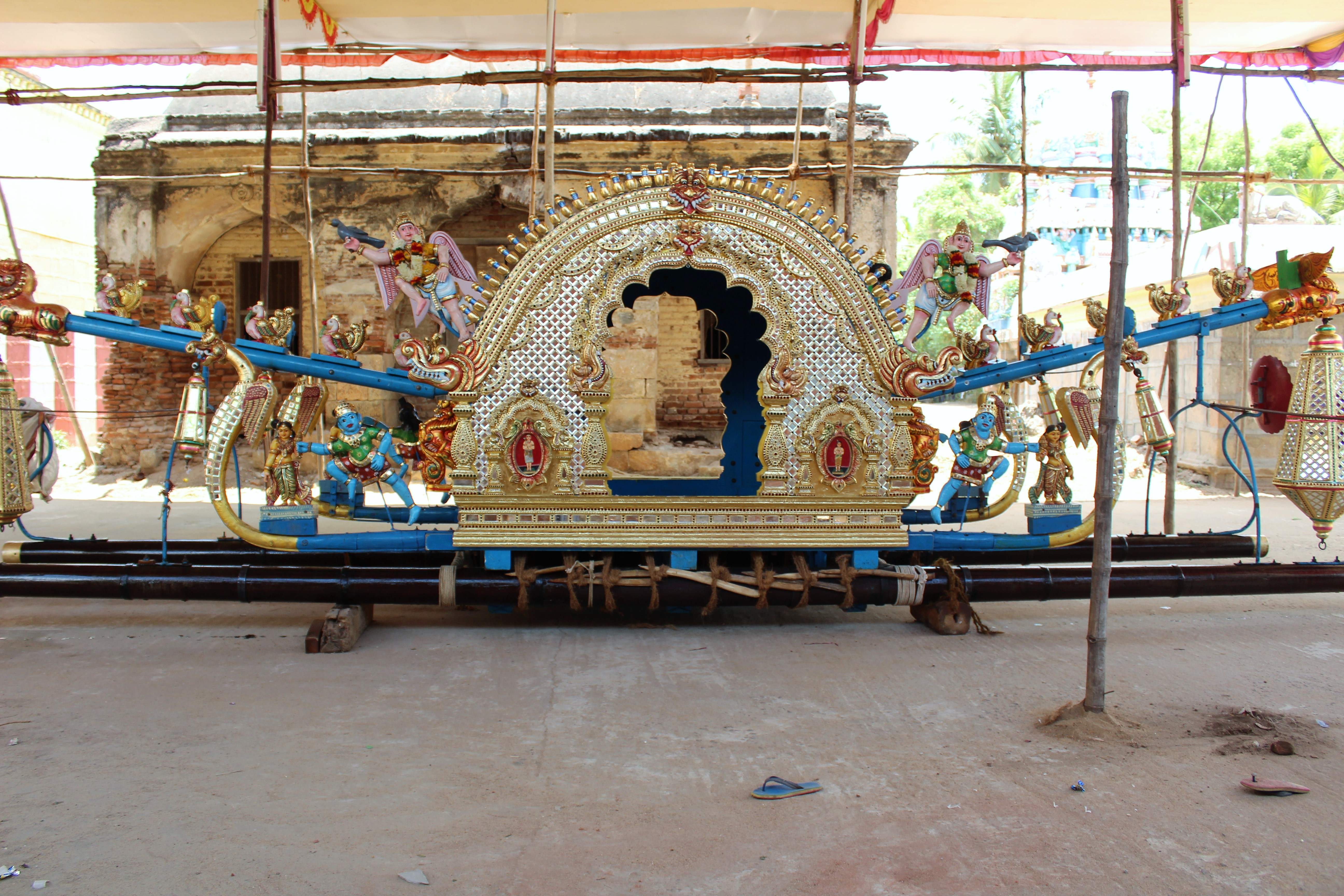 vedapureeswarar temple Thiruvedhikudi